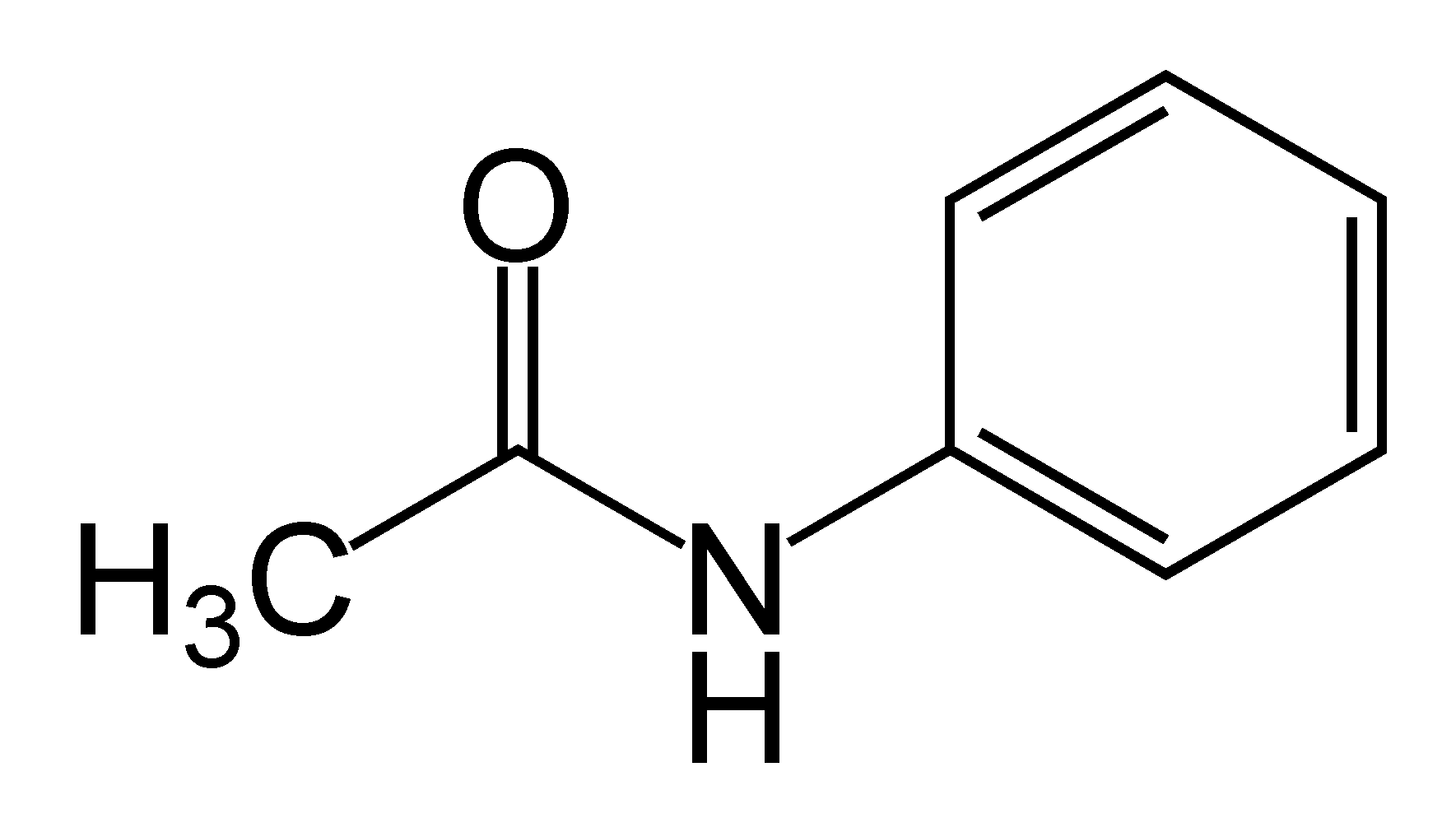 Chemical structure of acetanilide